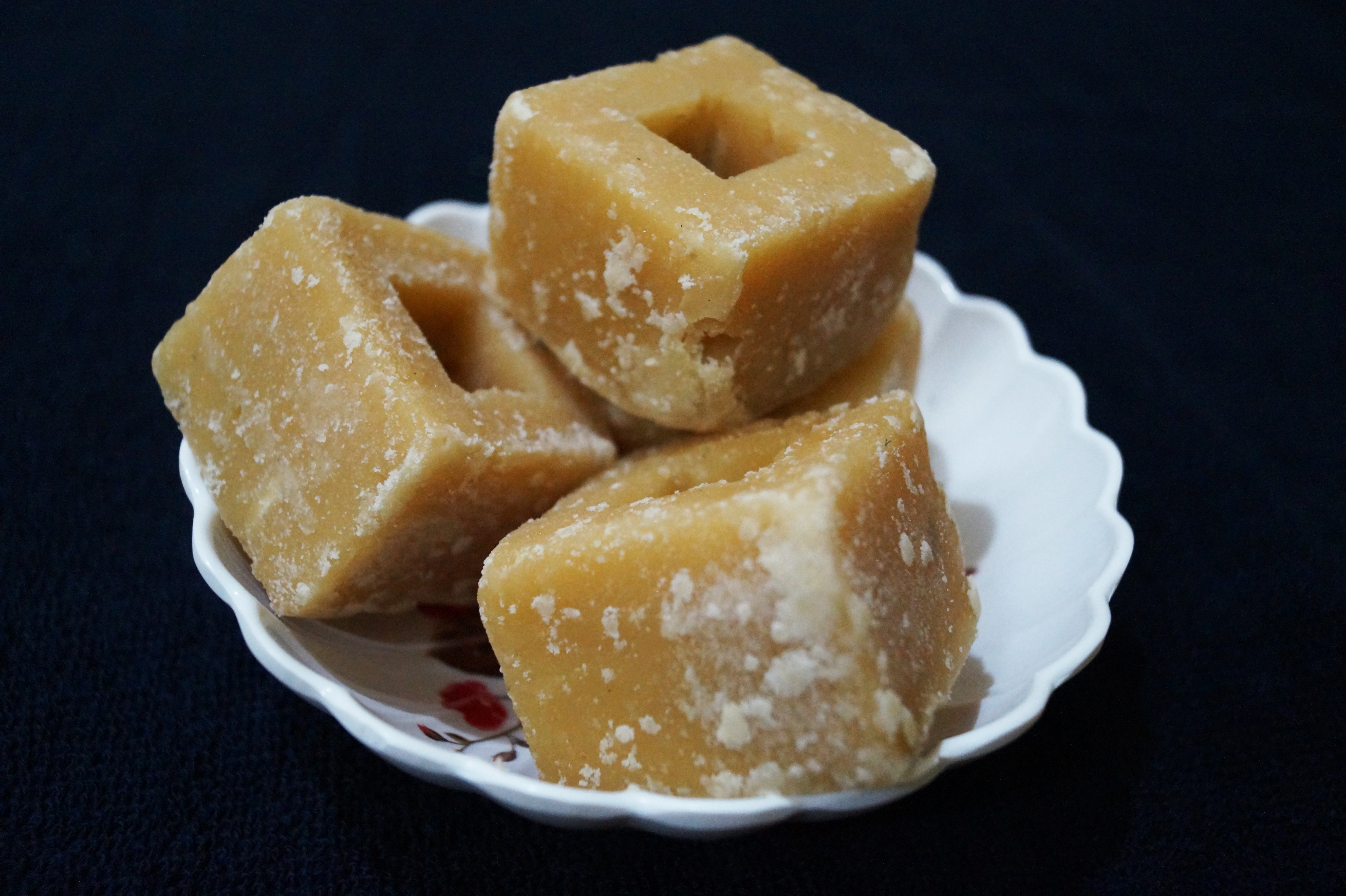 A close up photo of Jaggery cubes